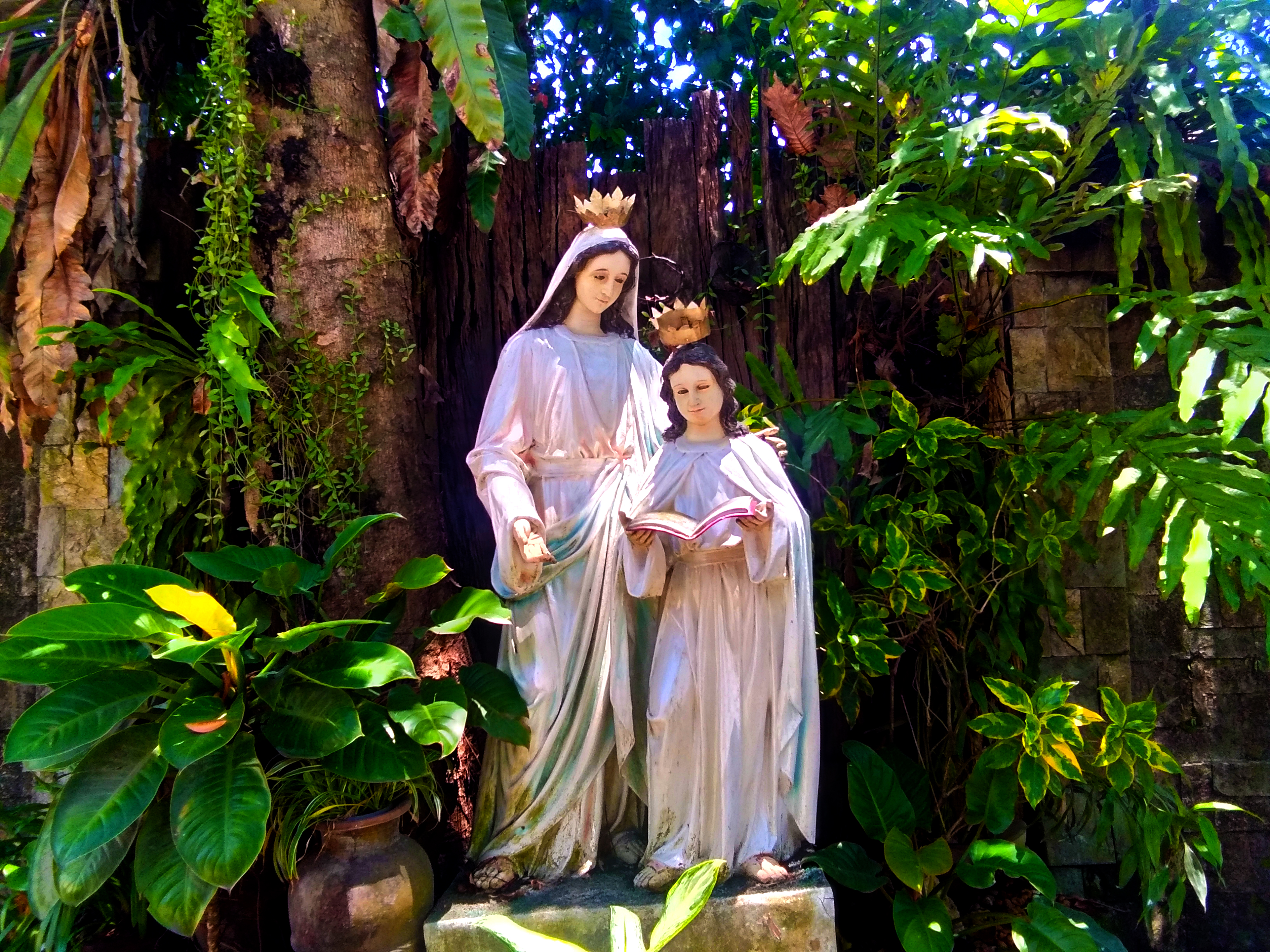 One of the pictures for the Wikipedia article of Colegio de Sta. Ana de Victorias.